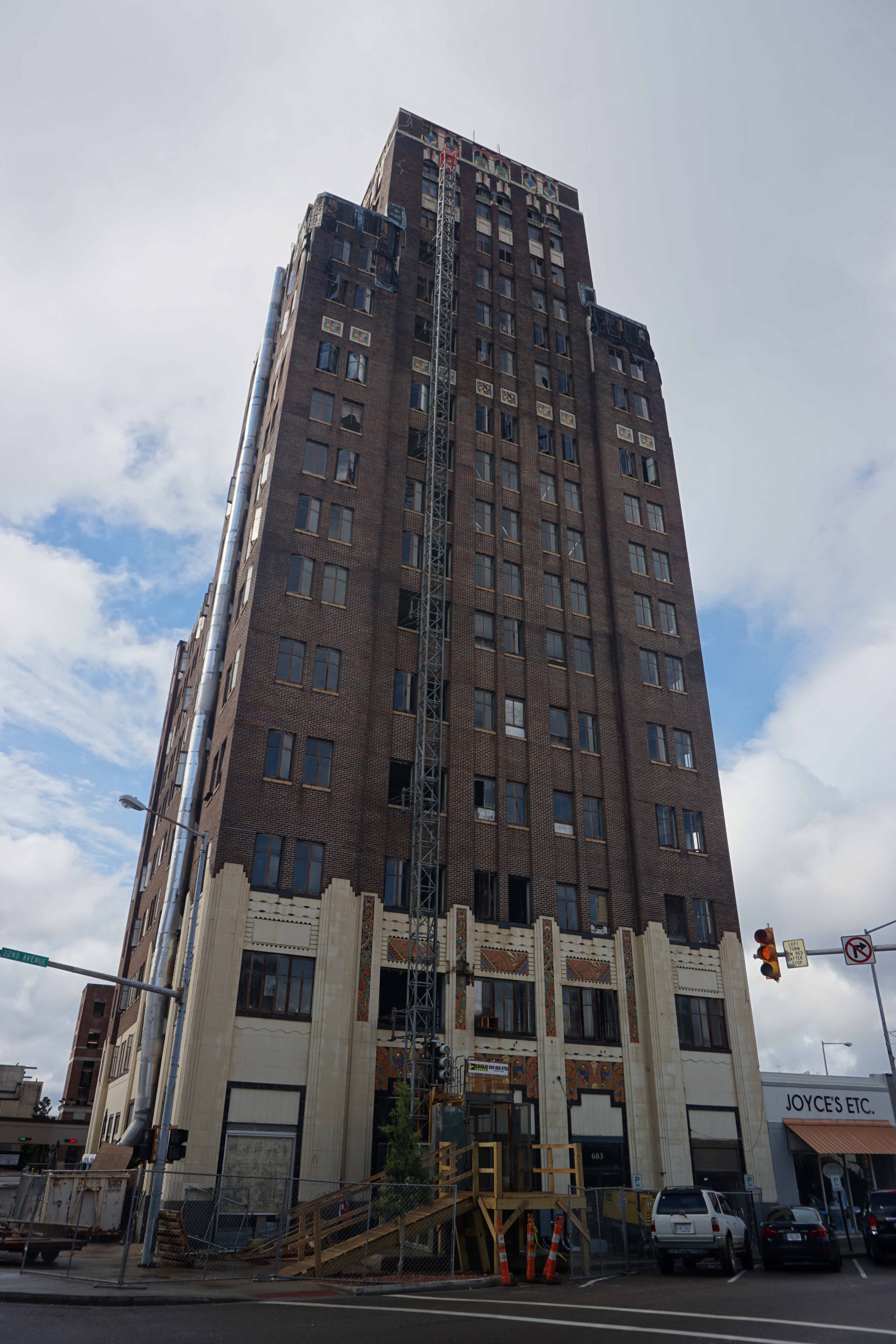 The Threefoot Building in Meridian, Mississippi (United States).